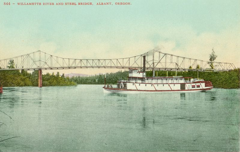 Albany (sternwheeler) on Willamette River, Oregon, USA between 1896 (date vessel built) and 1906 (date vessel reconstructed and renamed Georgie Burton.)